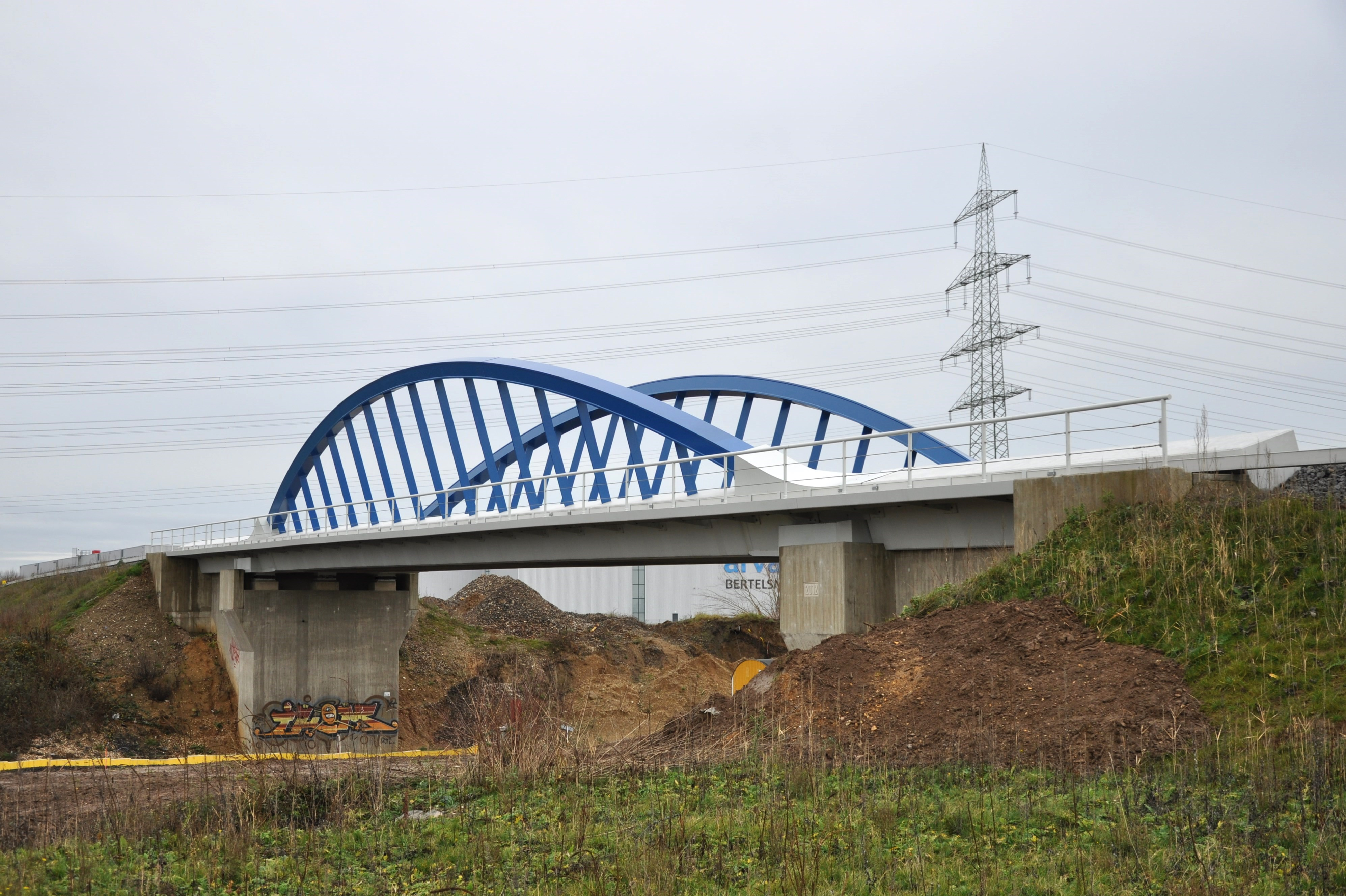 Rurtalbahn bridge crossing the BAB 4 at Düren. The bridge was built in 2012.